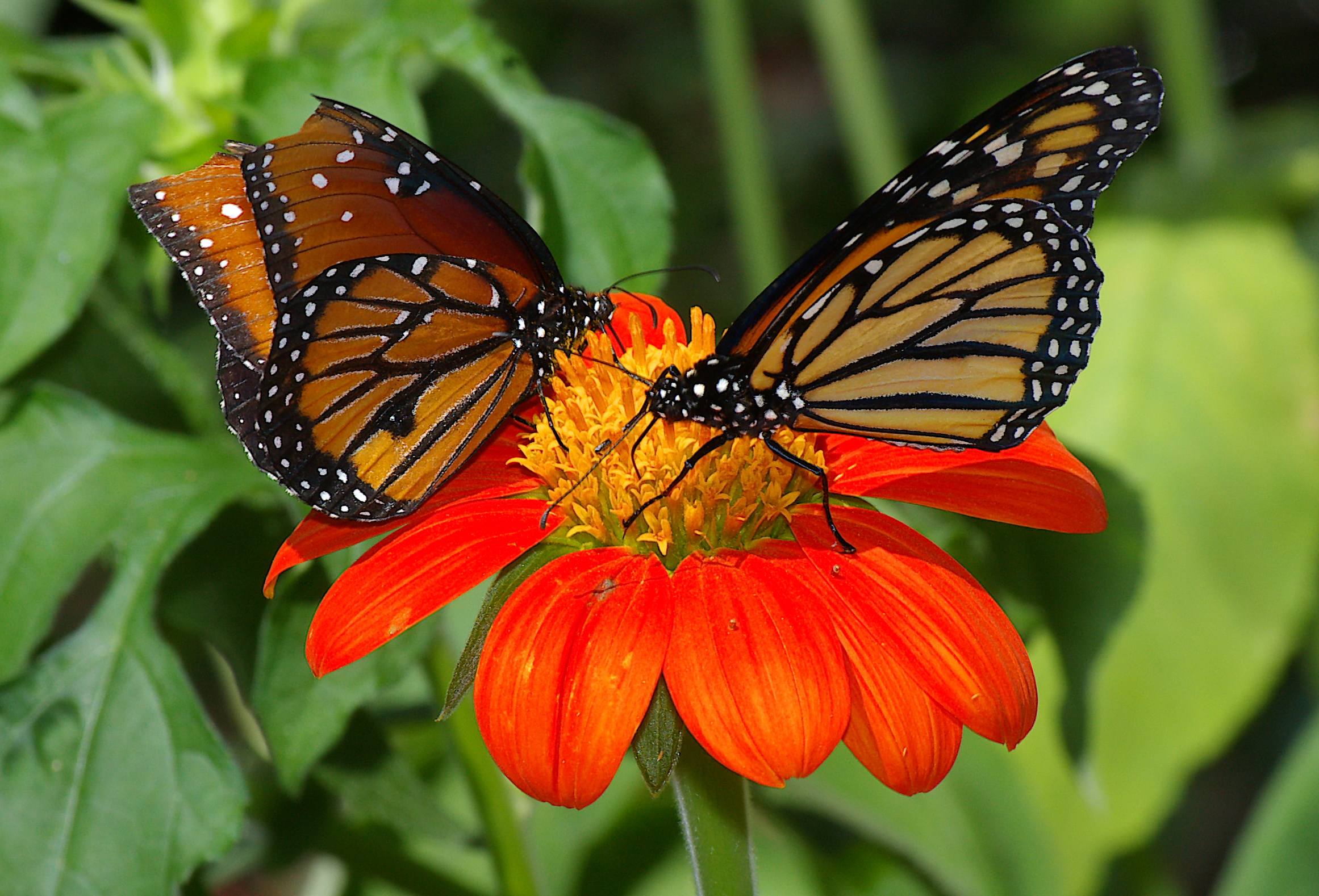 A Queen butterfly and a Monarch butterfly feeding on a Tithonia rotundifolia at the Butterfly Rainforest at the Florida Natural History Museum.